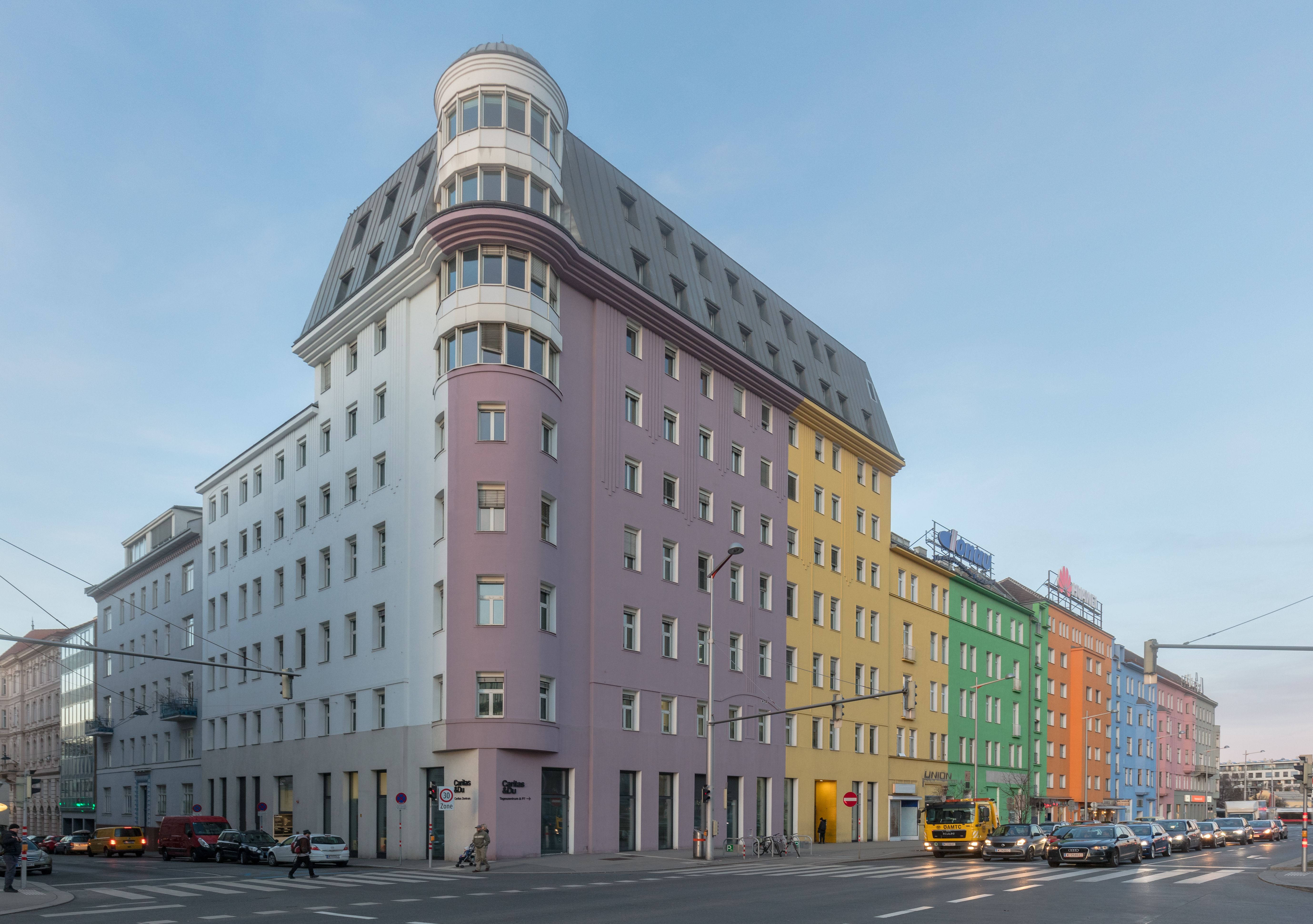 Caritas center, Vienna, Austria